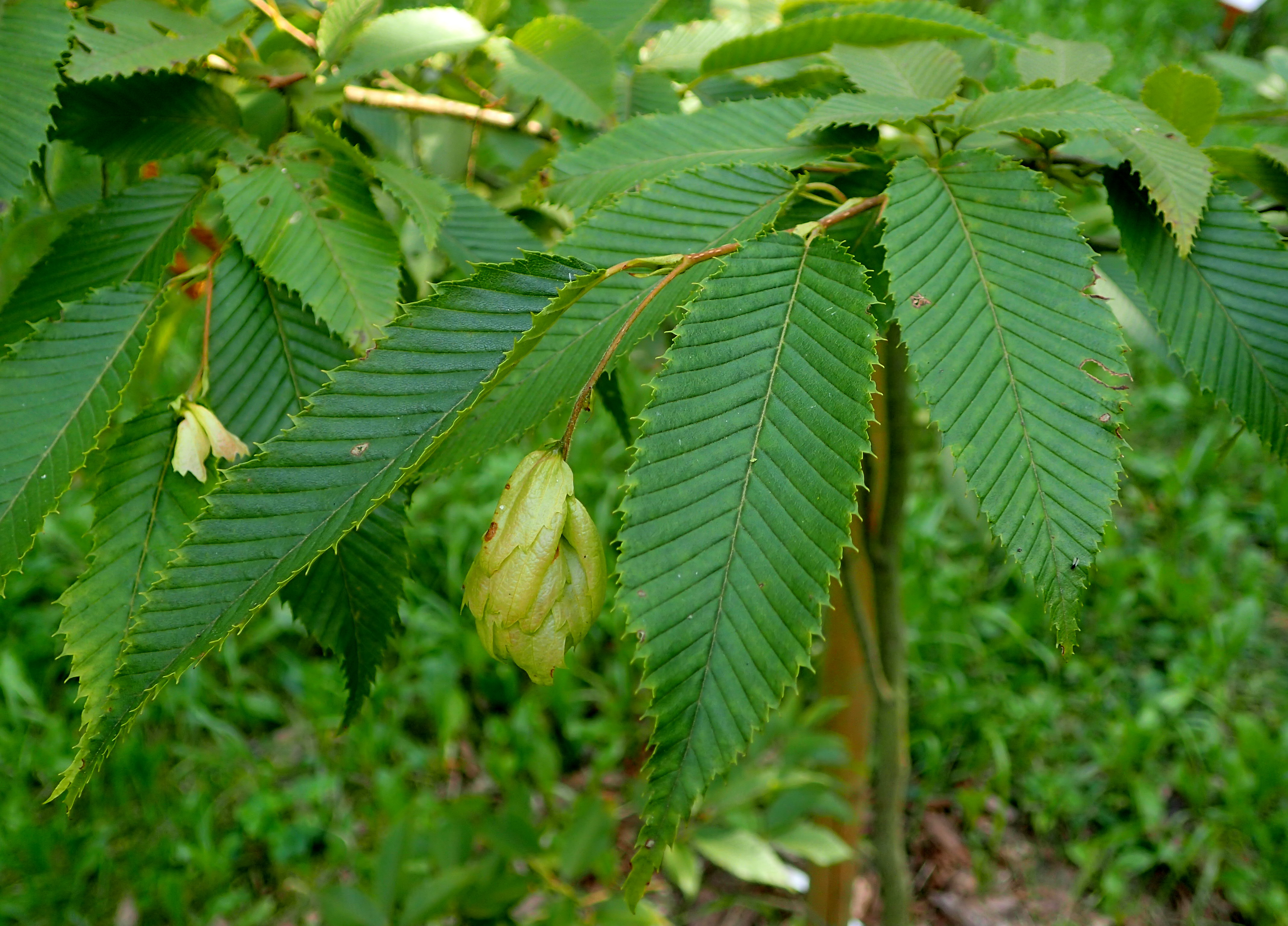 Carpinus turczaninowii at Botanical Garden in Zielona Góra